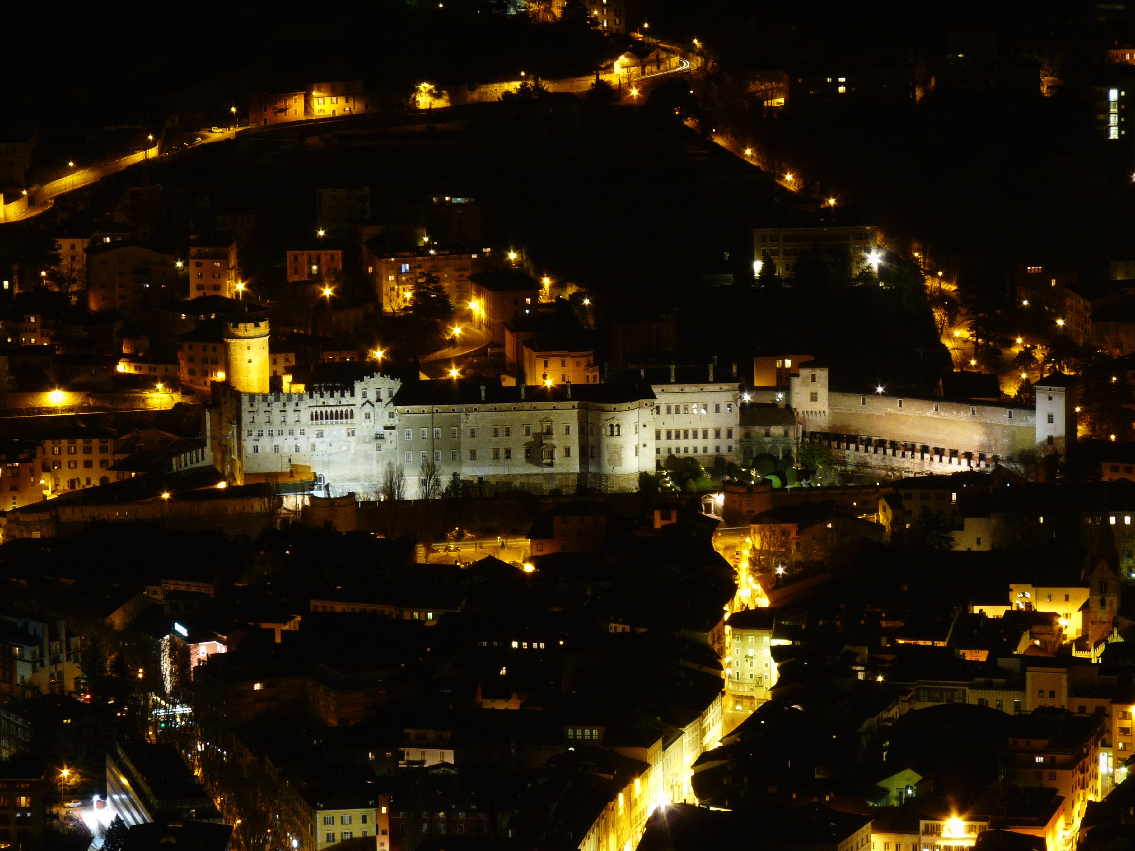 Trento (Italy): Castello del Buonconsiglio viewed from Sardagna, by night